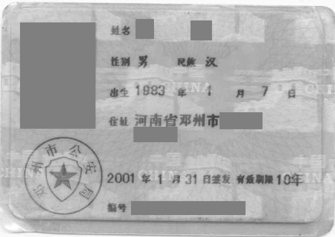 First generation edition of the Resident Identity Card of the People's Republic of China.